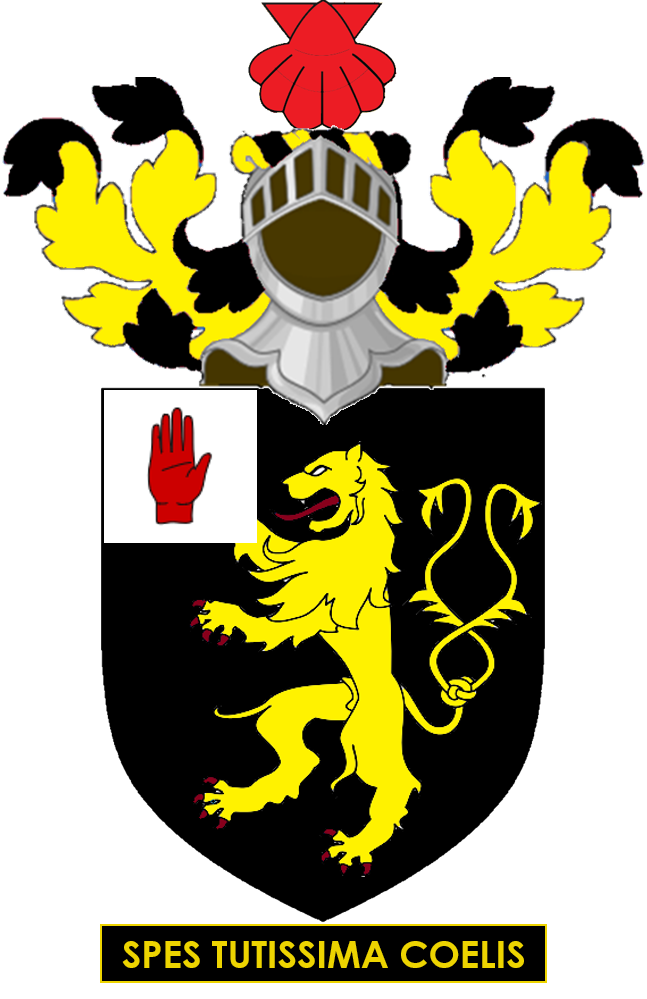 The armorial achievement of the King baronets of Charlestown